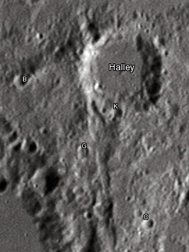 Halley lunar crater as seen from Earth with satellite craters labeled